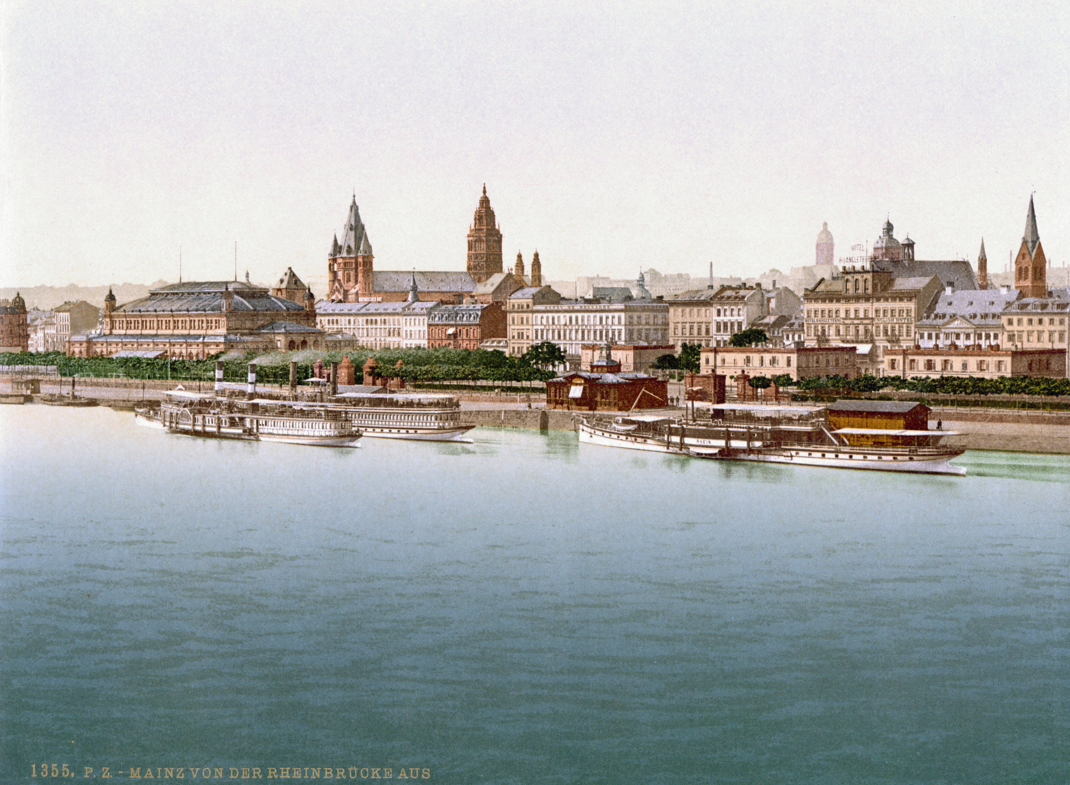 Mainz, from Rhine Bridge, the Rhine, Germany